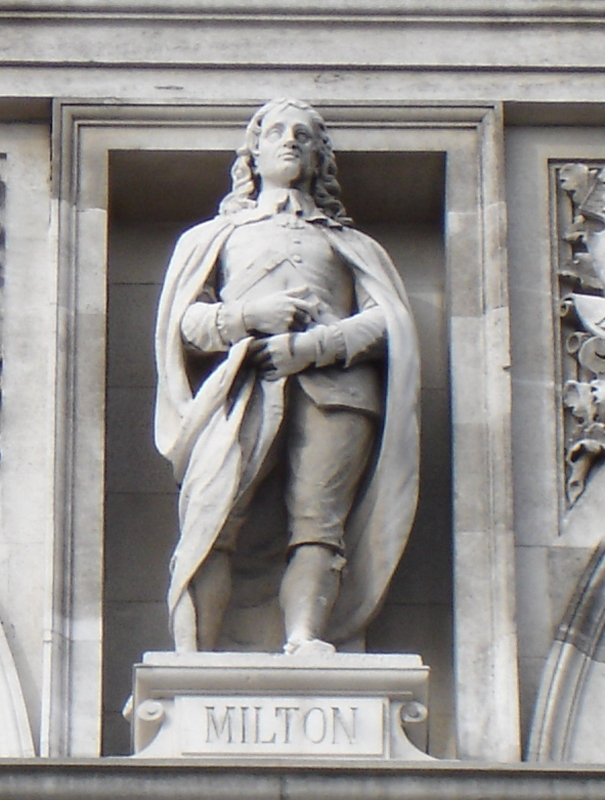 Statue Of Milton-Old City Of London School-Victoria Embankment-London